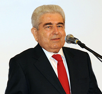 Cypriote President Demetris Christofias